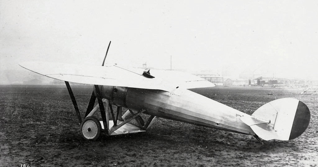 Photo of Nieuport Madon WW1 airplane rear samf4u.jpg